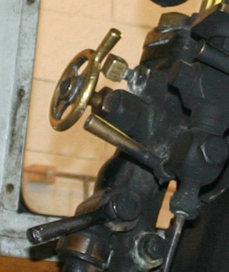 Steam control valve and clack valve (boiler inlet) of the feedwater injector. The injector itself is mounted beneath the floor.